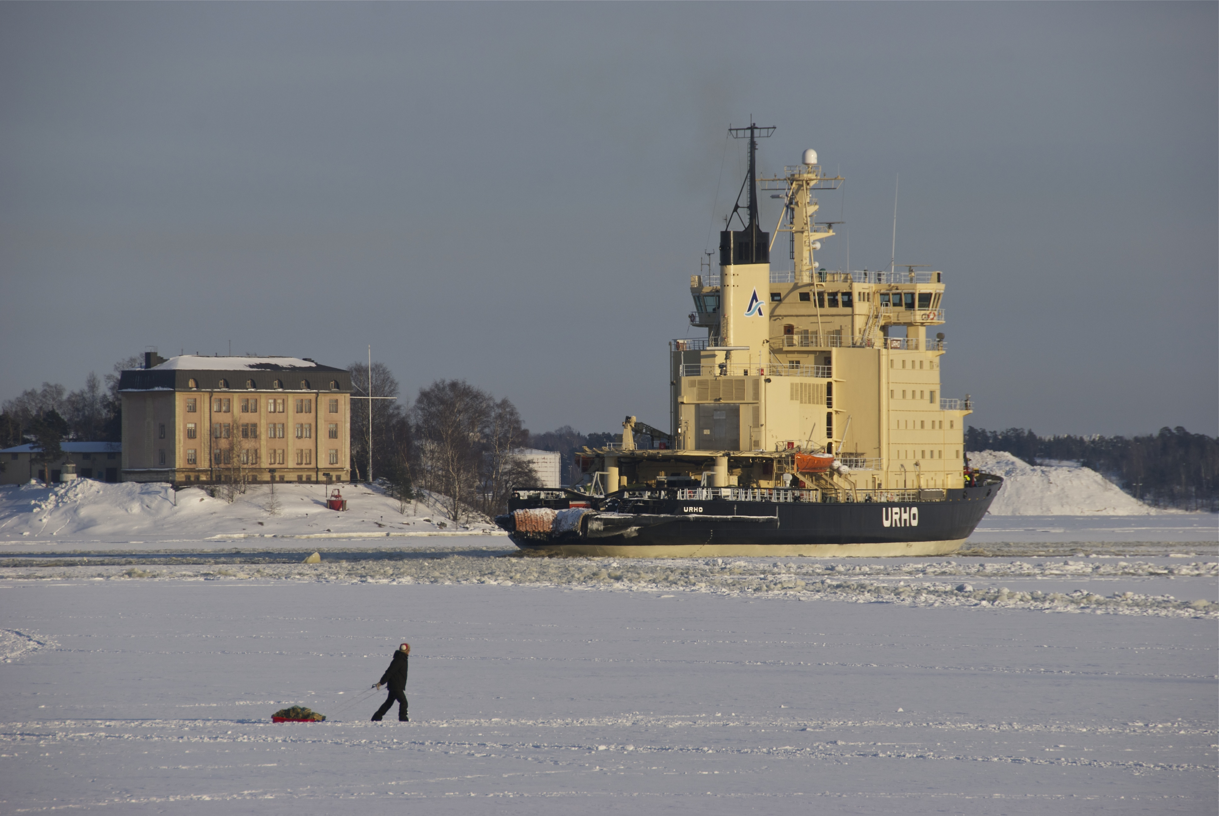 Icebreaker Urho heading back to sea after replenishment at Katajanokka, Helsinki.